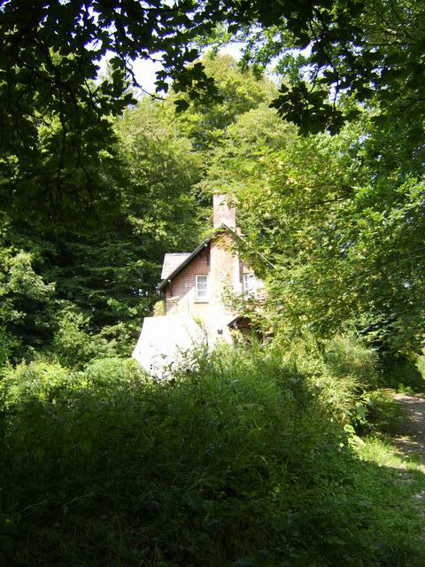 River Cottage. This Cottage was used in the Channel 4 programme Escape To River Cottage